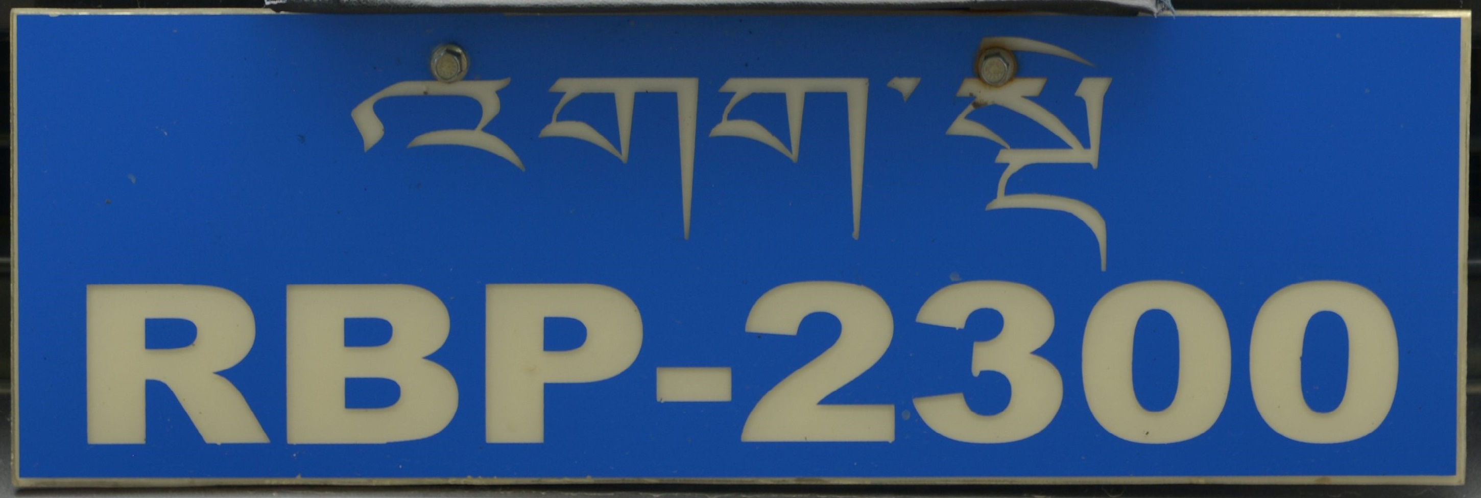 Example of Bhutan police vehicle licence plate. (RBP Royal Bhutan Police)